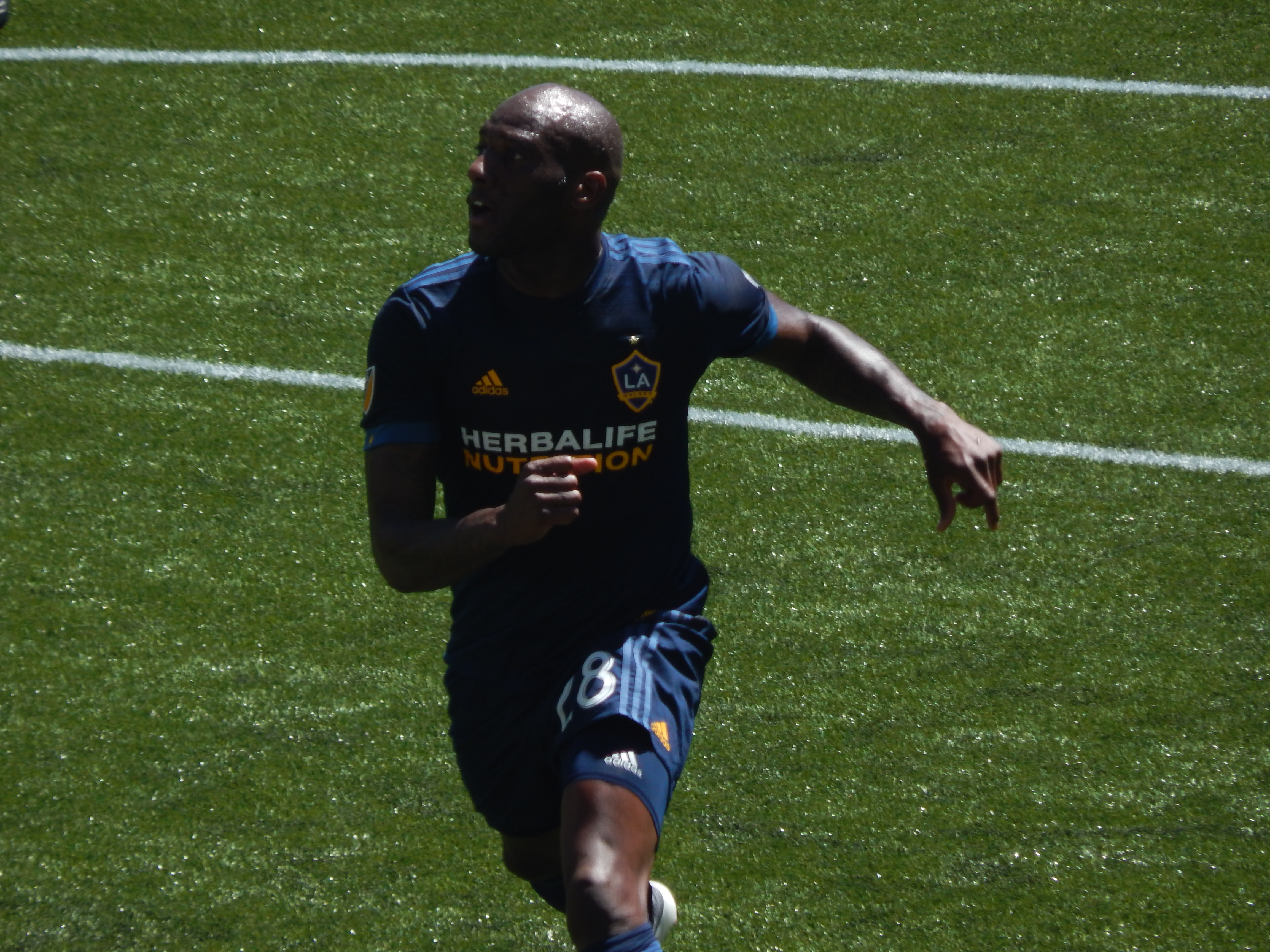 Michael Ciani #28 of Los Angeles Galaxy against the Portland Timbers at Providence Park on June 2, 2018 in Portland, Oregon.